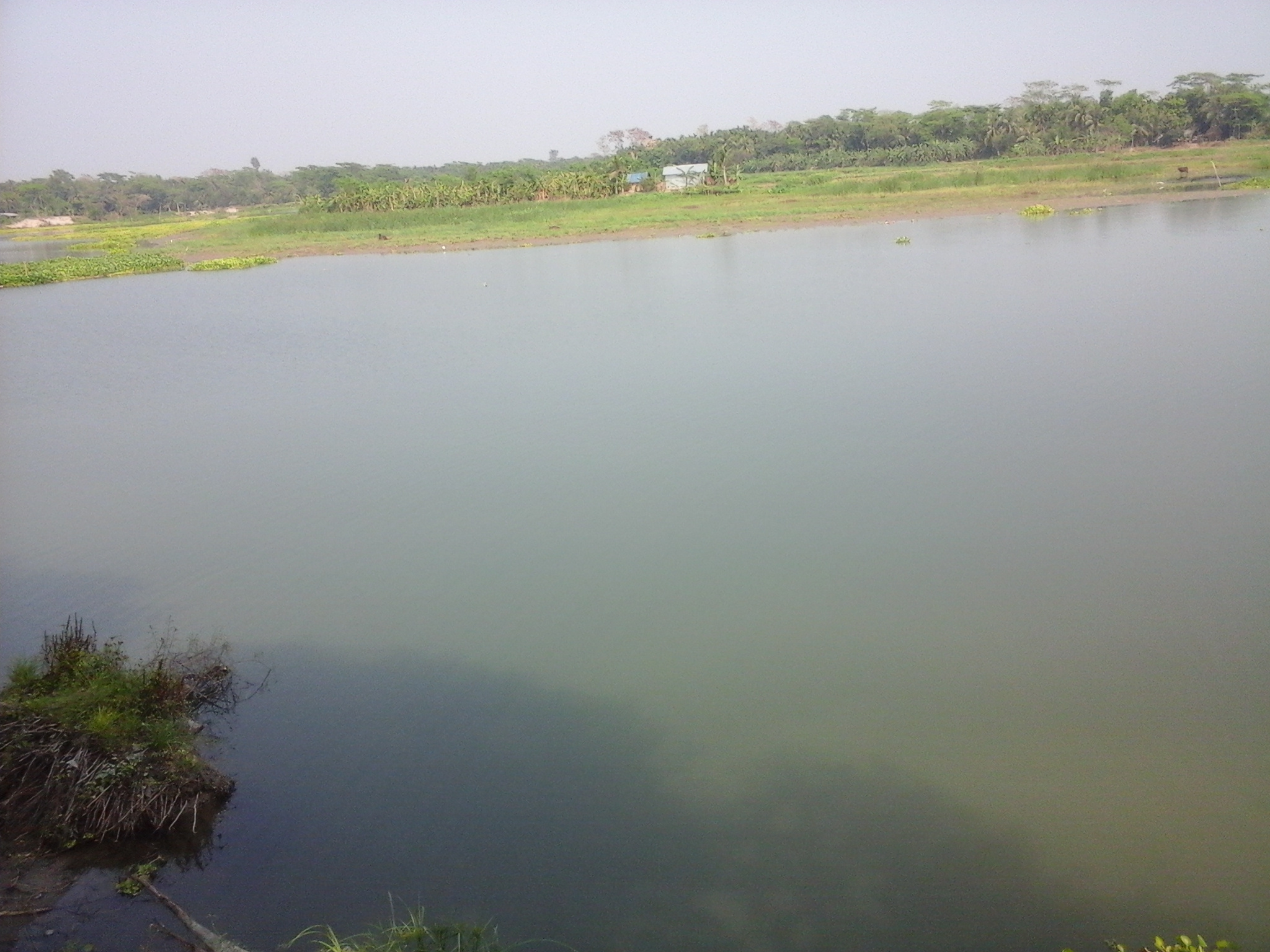 Rahmat Khali Canal or stream of consciousness river , Mouth of the Meghna River estuary